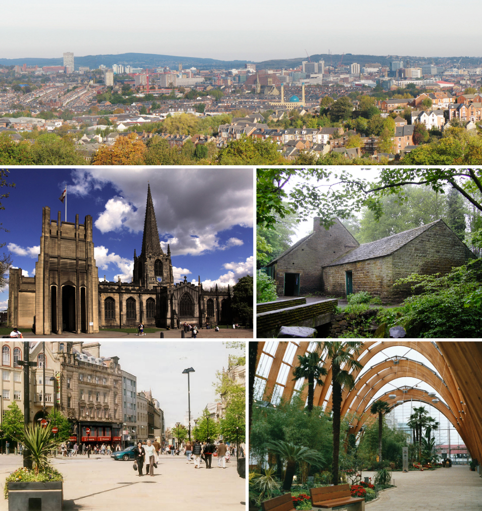 Montage for Sheffield Wikipedia article